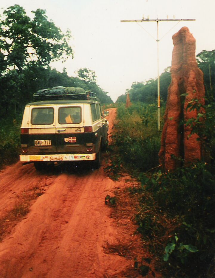 A series of termite mounds formed from the old wooden poles of the telegraph line, Cape York, Australia.